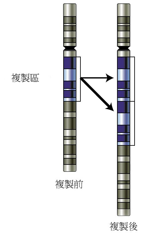 Drawing showing what happens in gene duplication. From [1] originally from [2] but it has been moved or removed; the entry "gene duplication" is gone from the Talking Glossary of Genetics. The image was brought here from enwiki Image:Gene-duplication.png. "All of the illustrations in the Talking Glossary of Genetics are freely available and may be used without special permission." [3].